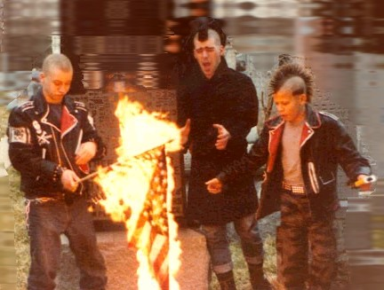 Punks burning a U.S. flag (early 1980s)